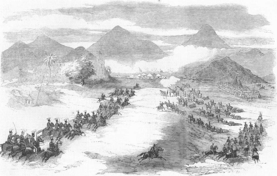 The Indian Mutiny: General Woodburn's Moveable Brigade shelling the encampment of the First Regiment of Cavalry of the Hyderabad Contingent at Aurungabad